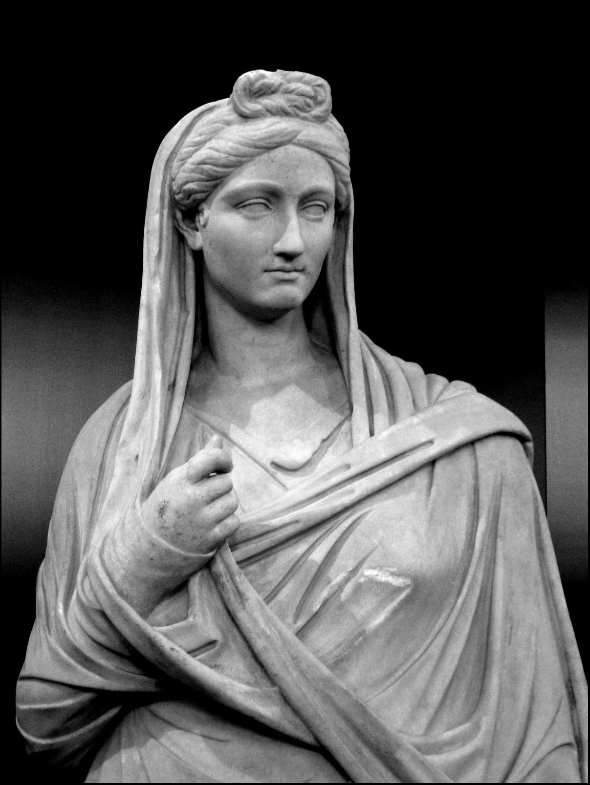 Partial view of a statue of Vibia Sabina (c.86–136/7).